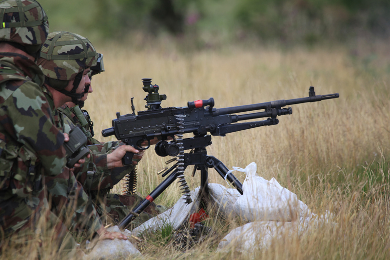 Soldiers of the Irish Army with General Purpose Machine Gun (FN MAG). Image from Flickr profile of Irish Defence Forces, shared under CC 2.0 Generic (Attribution).